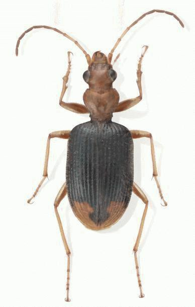 ZooKeys - Anchonoderus apicalis Cut-out from original (A-synopsis-of-the-tribe-Lachnophorini-with-a-new-genus-of-Neotropical-distribution-and-a-revision-zookeys-430-001-g003.jpg) shown below